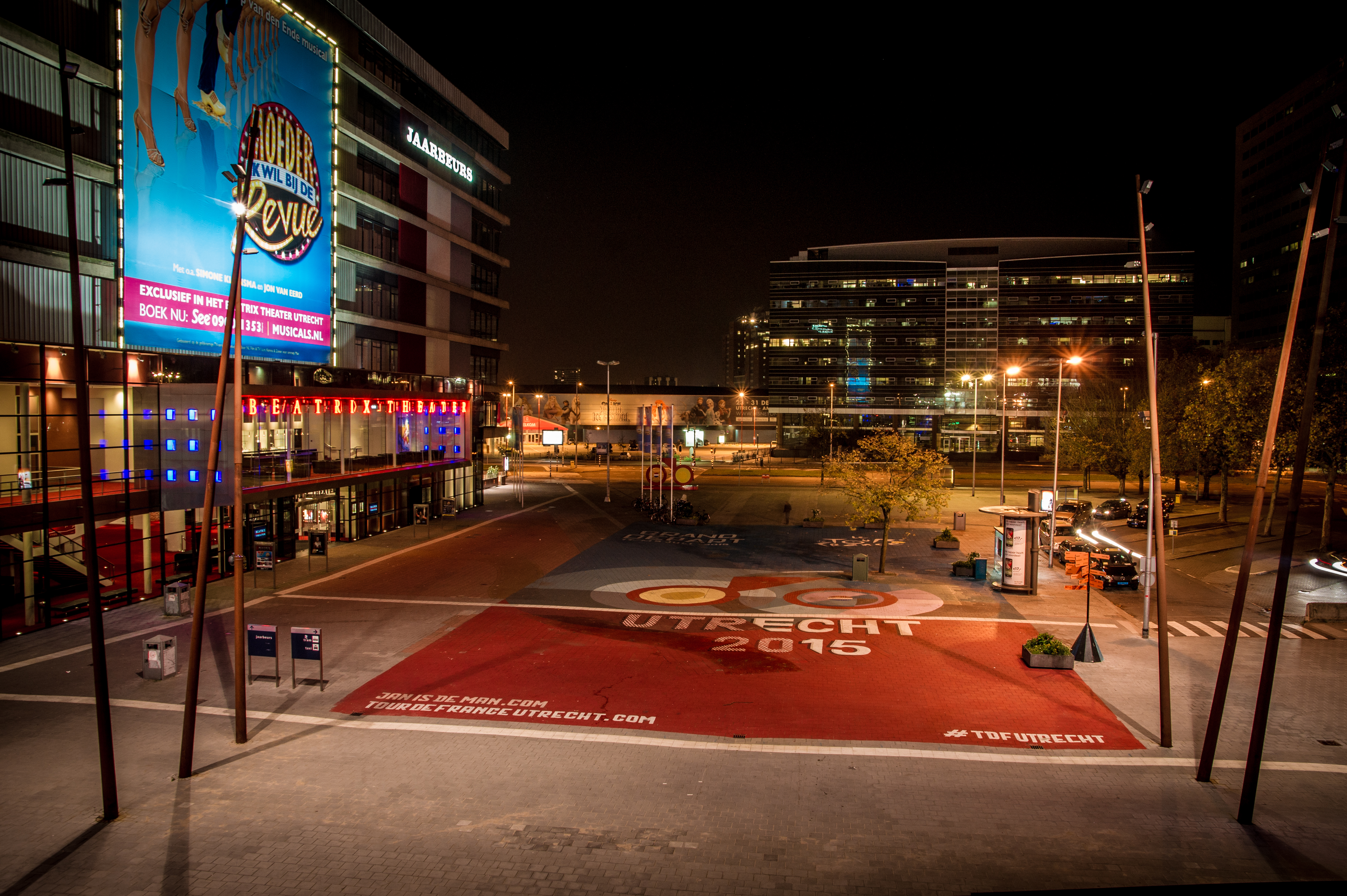 The square in front of the municipal office in Utrecht, the Netherlands.